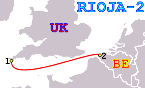 Route of the RIOJA-2 Submarine communications cable. For information regarding numbered landing points, see main article.